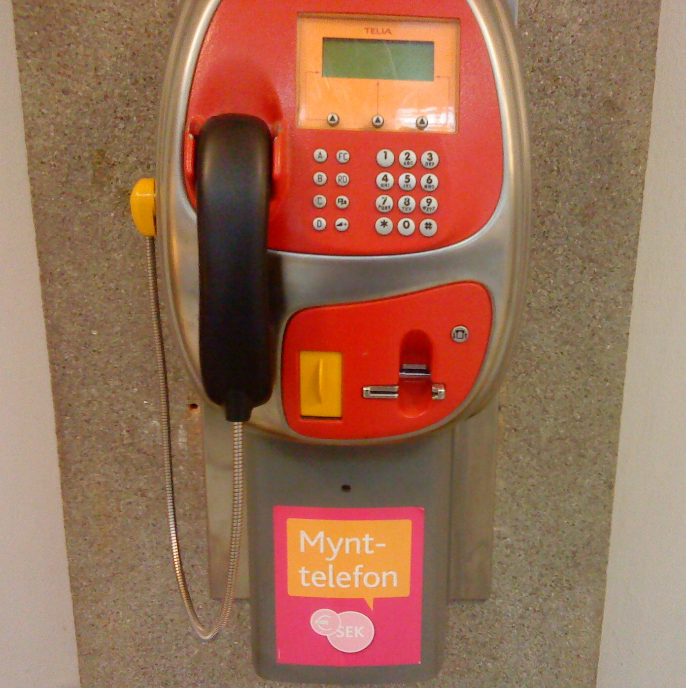 Telia phoneautomats in Sweden accept euro